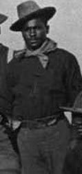 Augustus Walley (top row, 2nd from right, with the bandana around his neck), a former slave from Bond Avenue in Reisterstown, MD, earned the Medal of Honor. He was a Buffalo Soldier of the 9th and 10th Cavalry Regiments. This photo circa 1898.